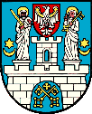 Coat of Arms of Poznań (pre 1996)